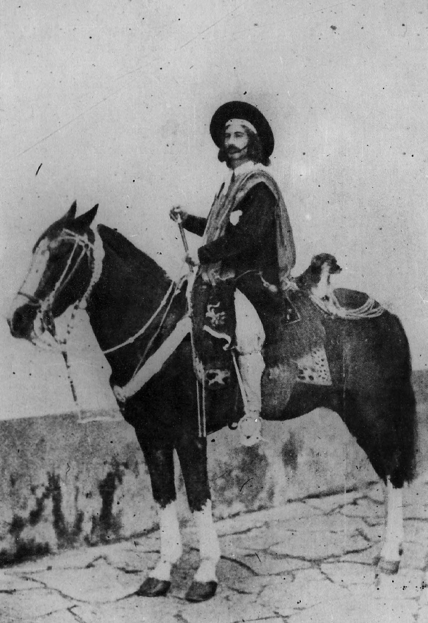 Argentine actor José Podestá (1858–1937) playing the gaucho Juan Moreira, his most famous role.